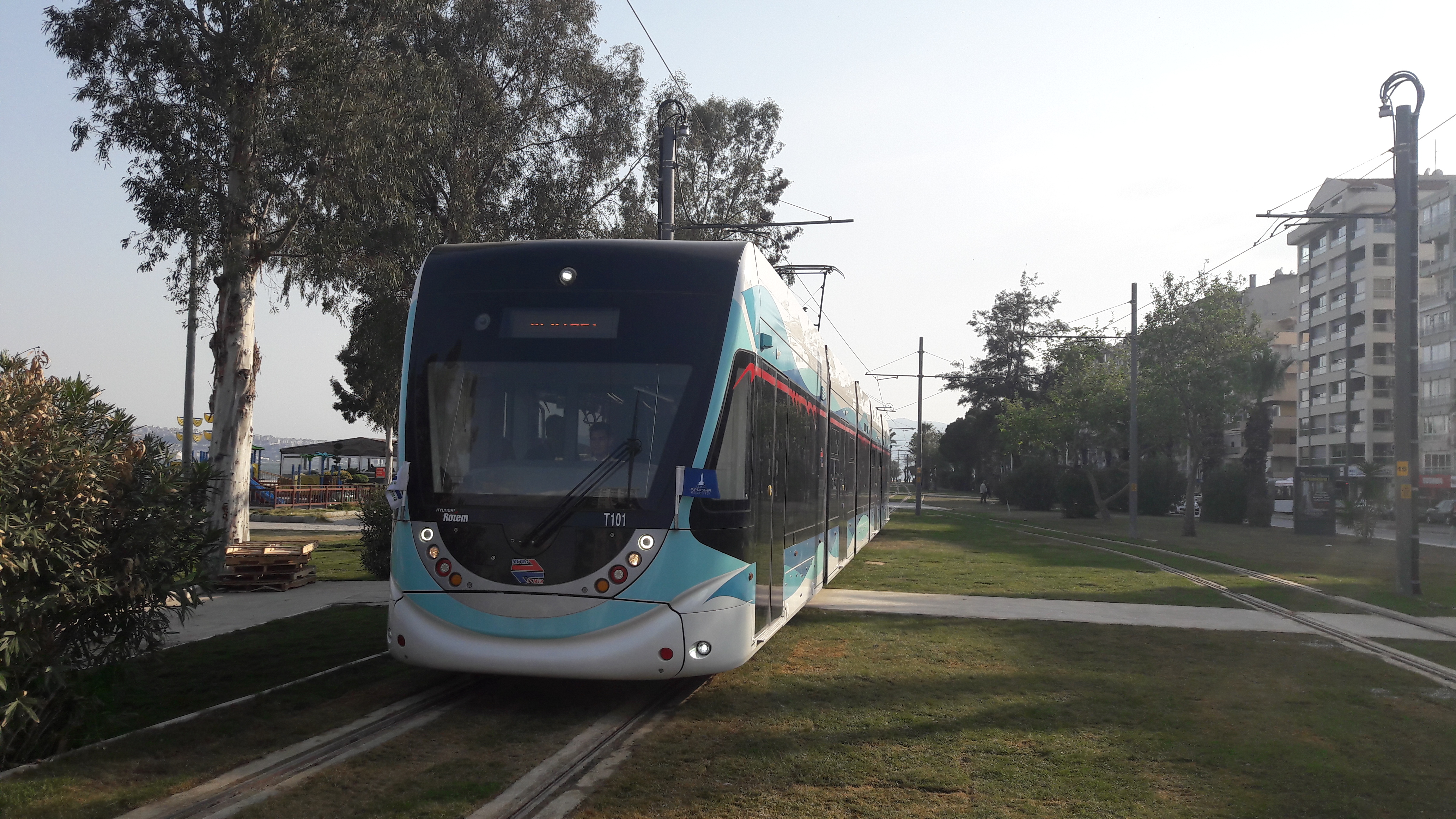 A tram approaching Alaybey station.